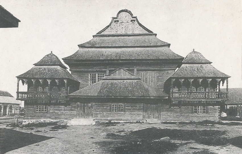 Wolpa Synagogue (1650)